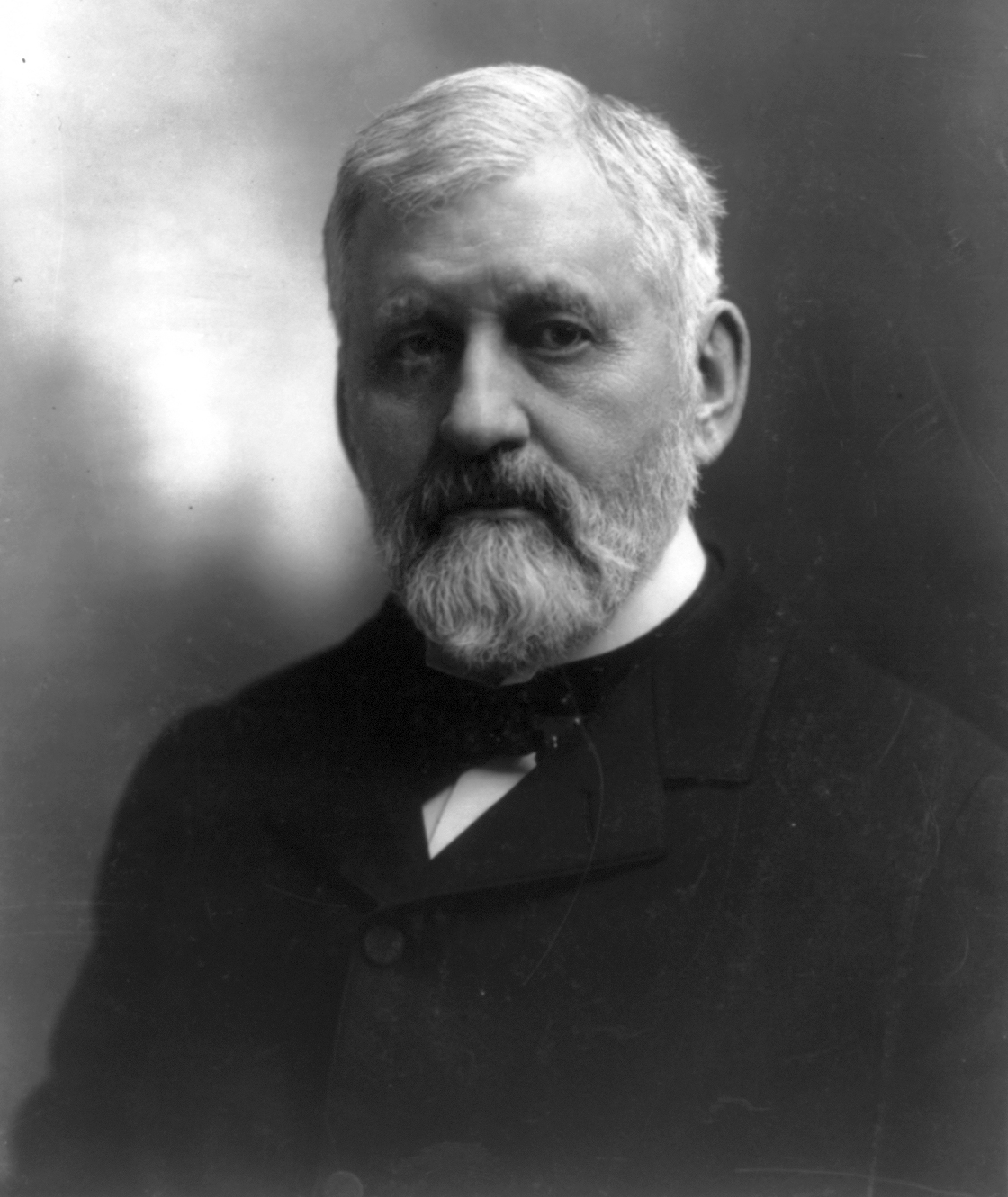 William B. Allison (1829 - 1908)